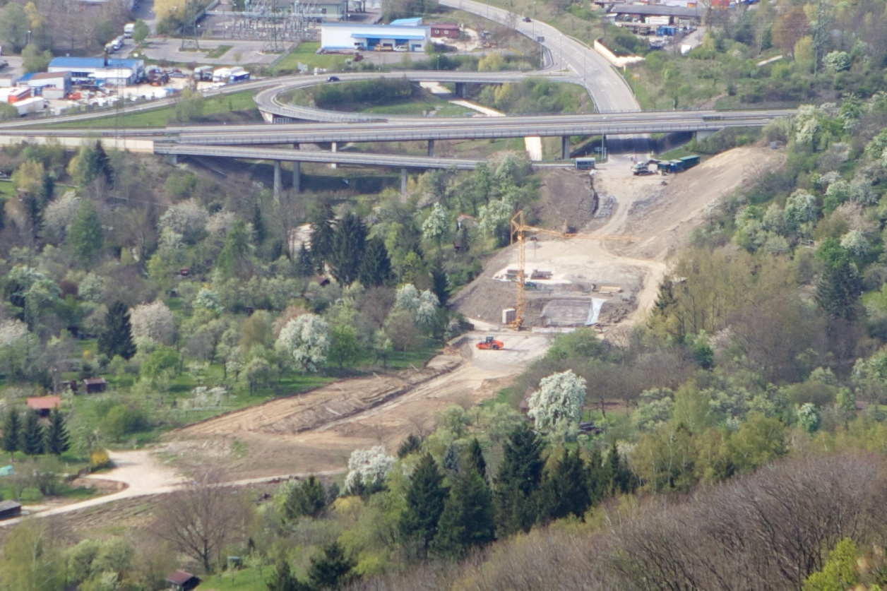 Construction site north of the 'Scheibengipfeltunnels' in Reutlingen.